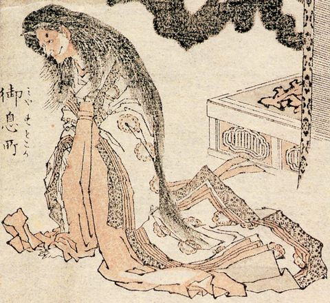 Aoi no Ue (the ghost of Lady Rokujo) from the Hokusai Manga